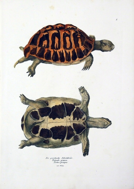 "Naturgeschichte und Abbildungen Der Reptilien", Testudo graeca, Greek Tortoise